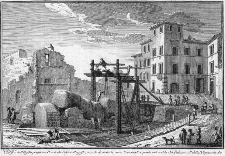 1) Curia Innocenziana (Palazzo di Montecitorio); 2) pedestal of Colonna di Antonino Pio; 3) Casa dei Signori della Missione; 4) Colonna Antonina; 5) Palazzo Chigi.